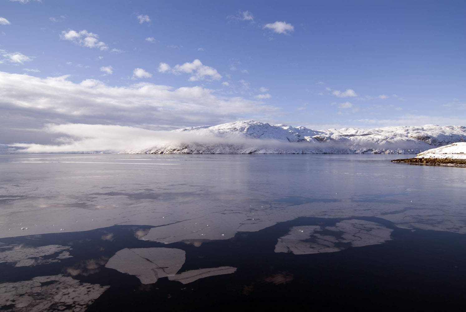 View of the Greenlandish fiords, as seen from Kangilinnguit.